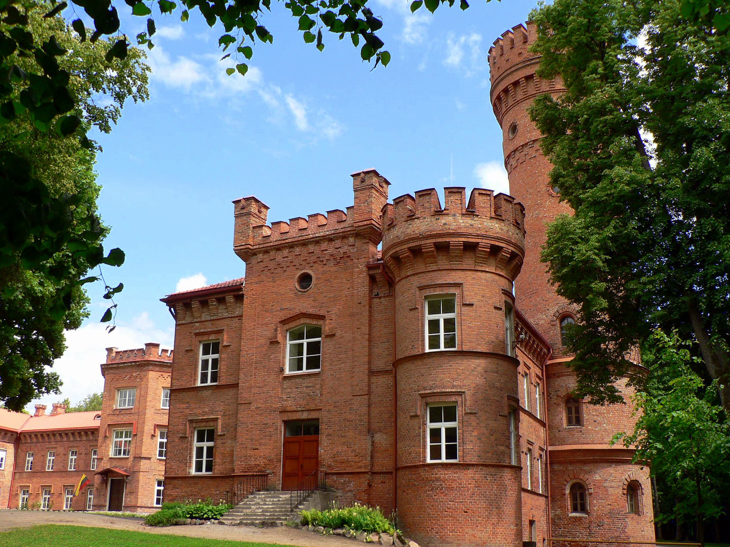 Raudone castle, Lithuania.